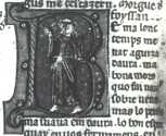 A miniature of Jaufre de Foixa in the initial capital ("B", folio 345v) from troubadour chansonnier "C", 14th-century from Occitania, now BnF 856 in Paris. The song is the monk Jaufre is beginning is "Be m'a lonc temps".